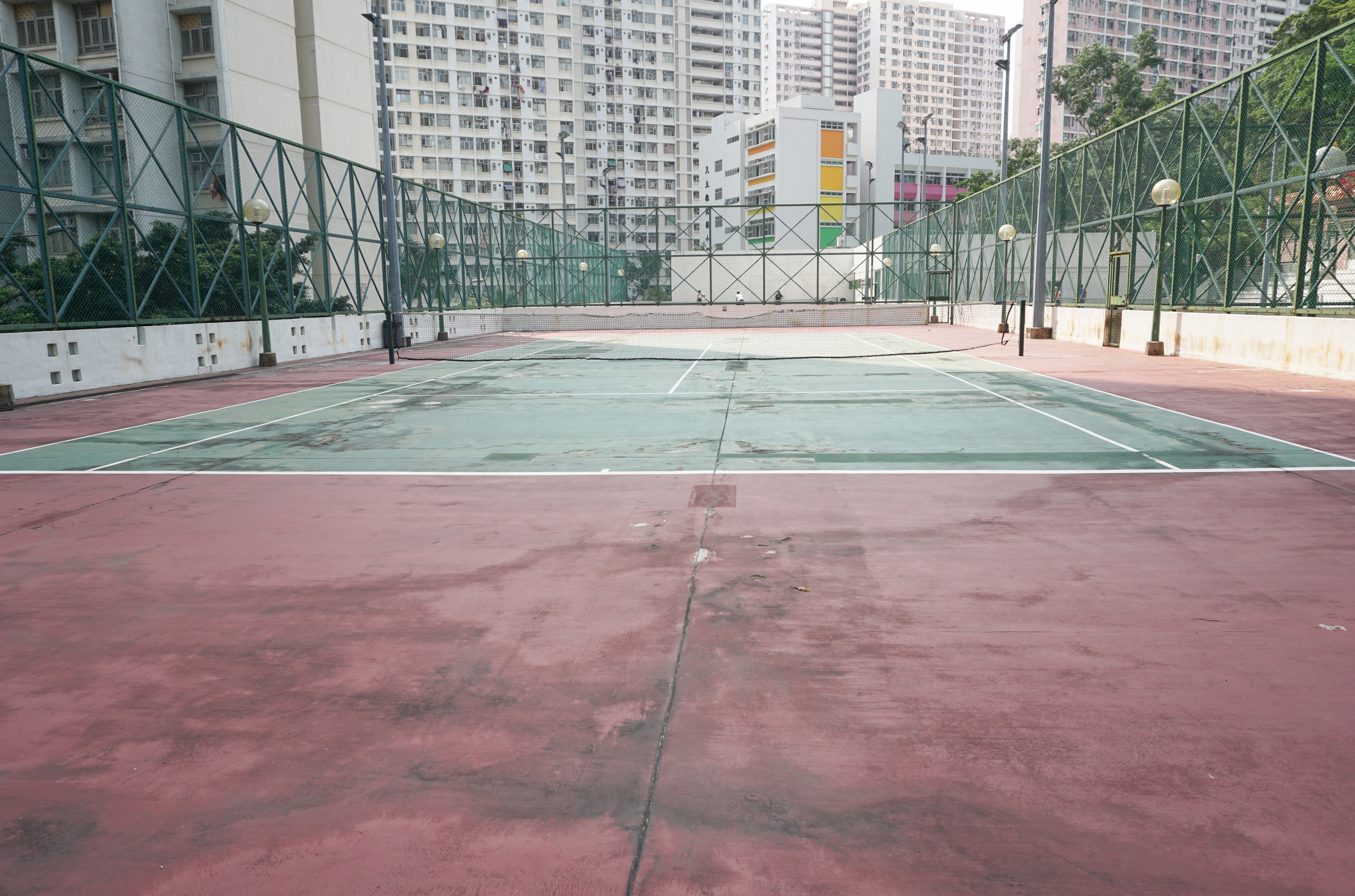 Tsui Ping (South) Estate in Kwun Tong, Hong Kong.